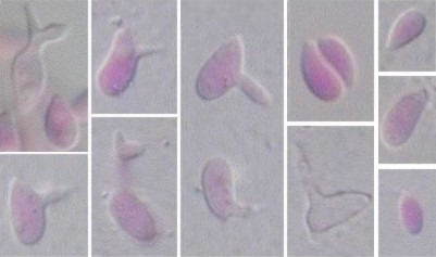 Oval to irregularly shaped single-celled yeast of Sporobolomyces salmonicolor showing characteristic "arthritic-finger"-shaped sterigmata stained in lactofuchsin and photographed in bright field microscopy at 600x. James Scott